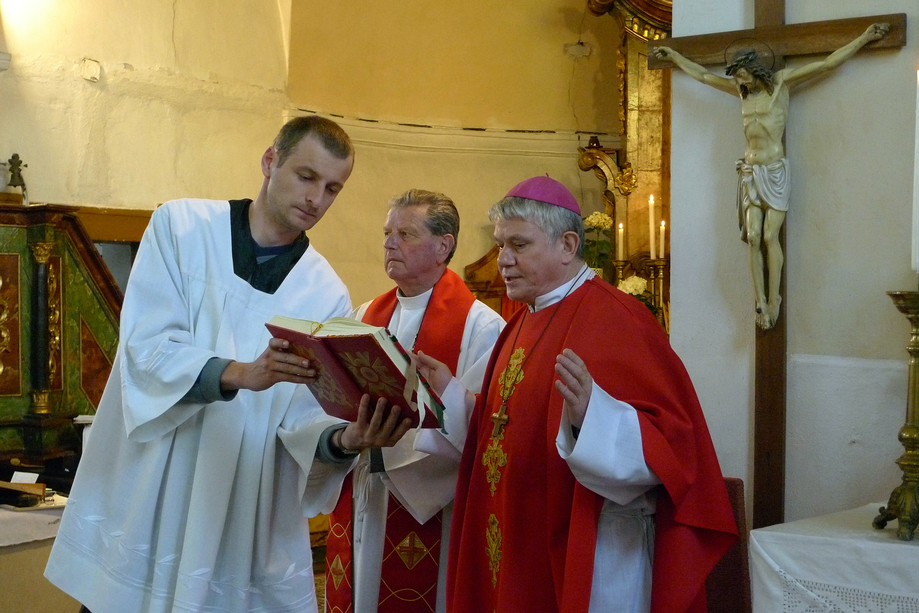 Czech theologian Václav Malý in Přerov nad Labem